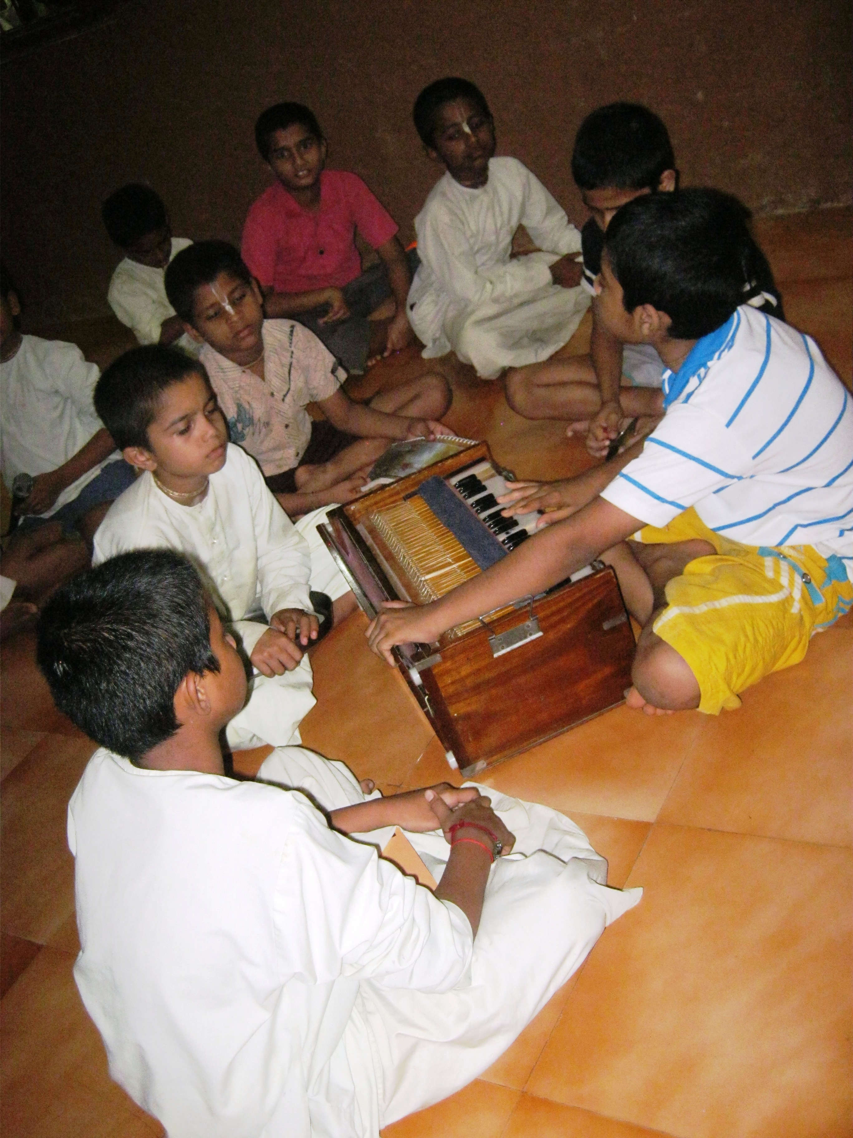 Children of Lady Northcote Hindu Orphanage singing Bhajans after dinner